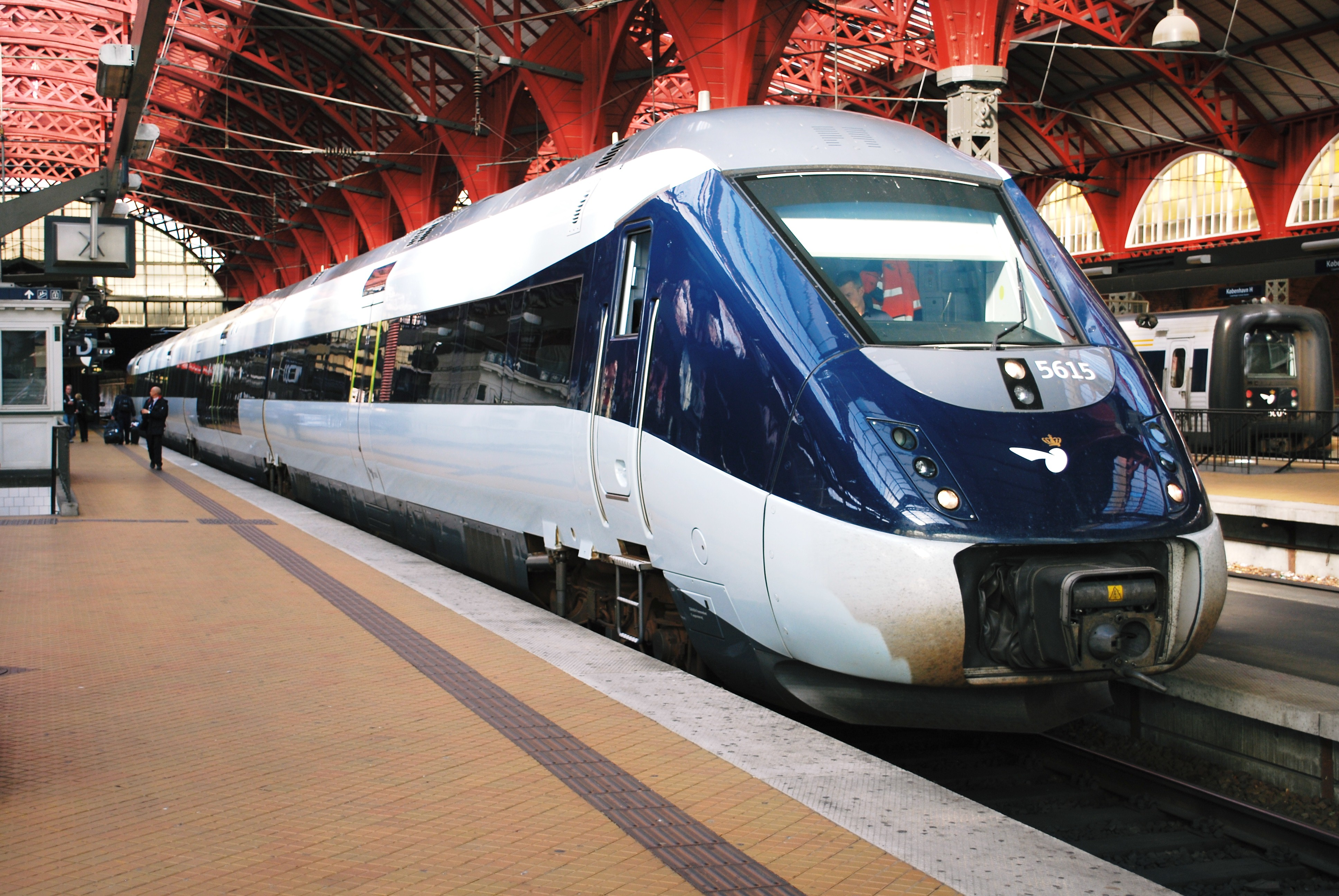 DSB Ansaldo-Breda IC-4 4-car HST dmu No.5615 at Kobenhavn on a regional service to Aarhus, 9/10. Pininfarina styled. Very beautiful but very flawed. One of the most problematical train designs ever produced. Intended to be in full HS service in 2003, the last are not due to be delivered until 2012 and the class was only finally cleared for full HS use in multiple in 2011, having largely been used in single units on regional services until then. And even now, DSB are having to make many modifications to them in their own workshops. Ansaldo-Breda have apparently agreed to compensate DSB half their original cost!